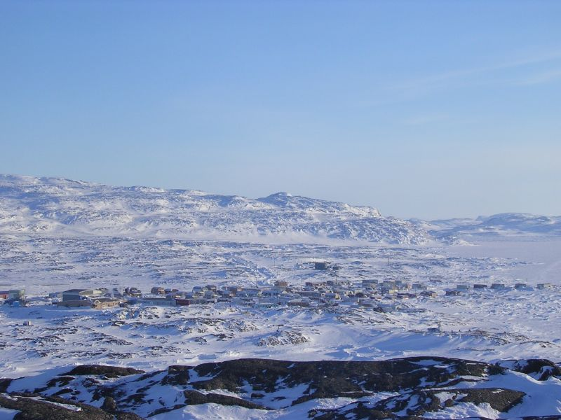 View of Kugaaruk